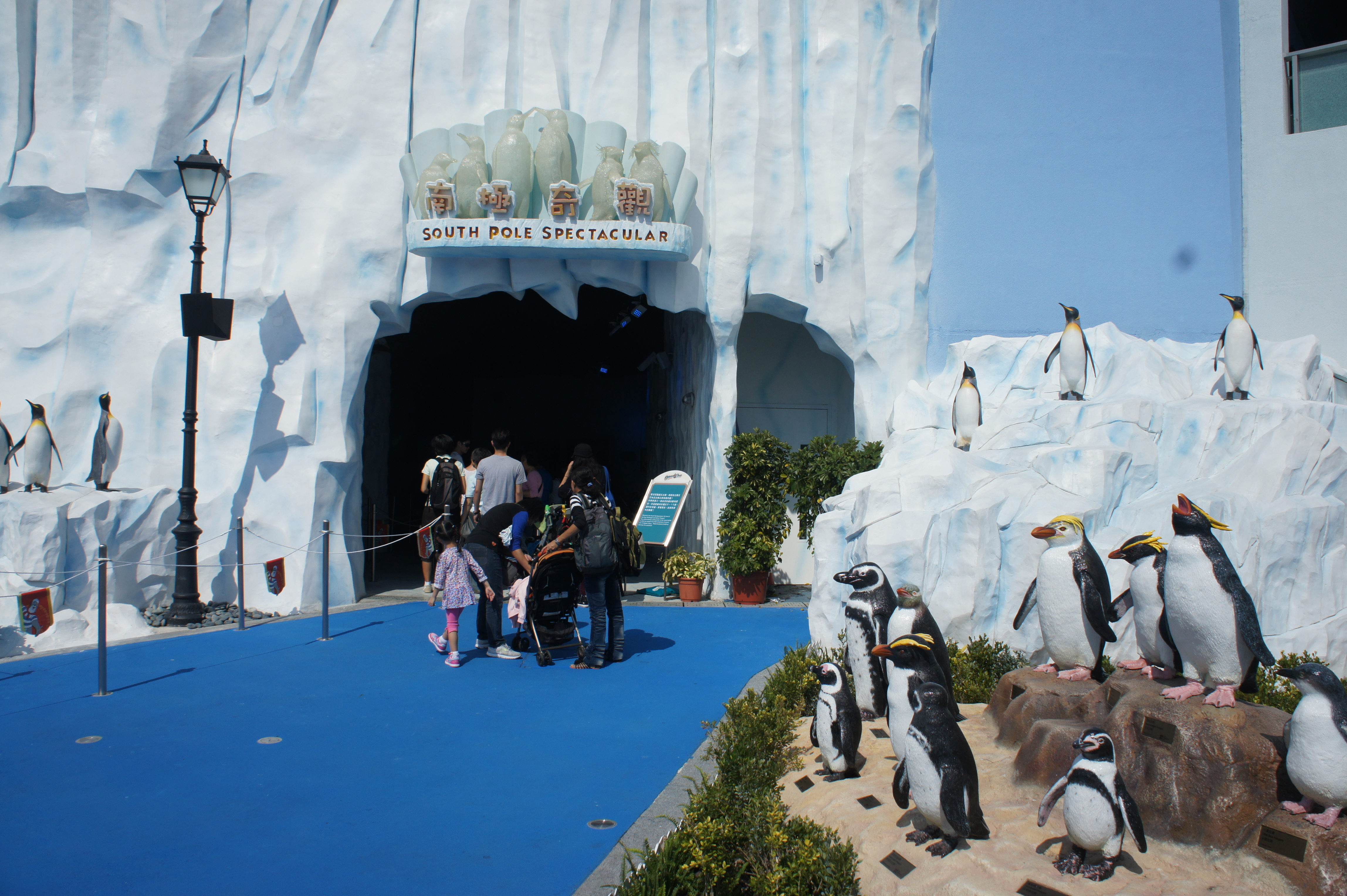 South Pole Spectacular, Polar Adventure, Ocean Park, Hong Kong.